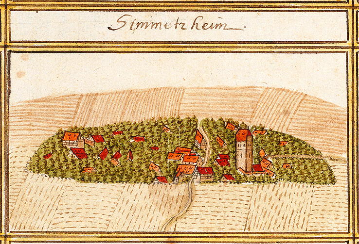 View of Simmozheim from the forest register books created by Andreas Kieser